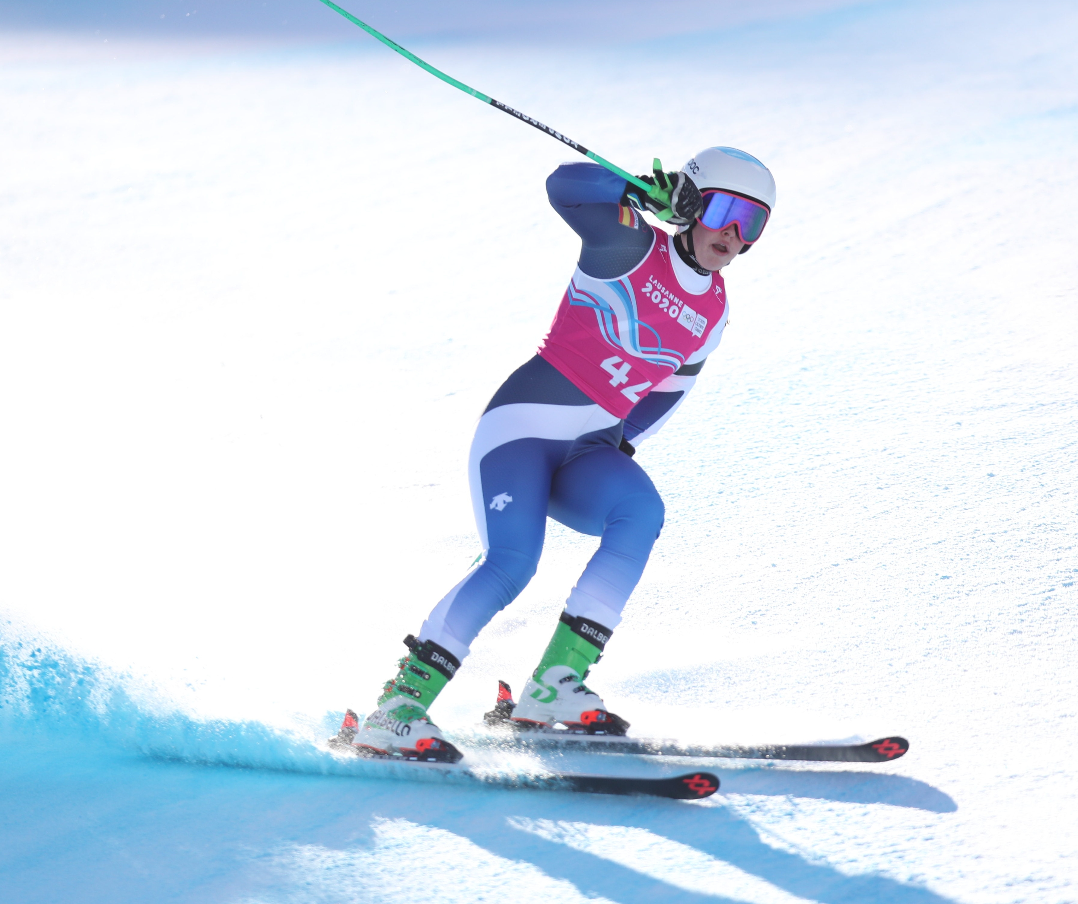 Women's Super G at the 2020 Winter Youth Olympics in Lausanne